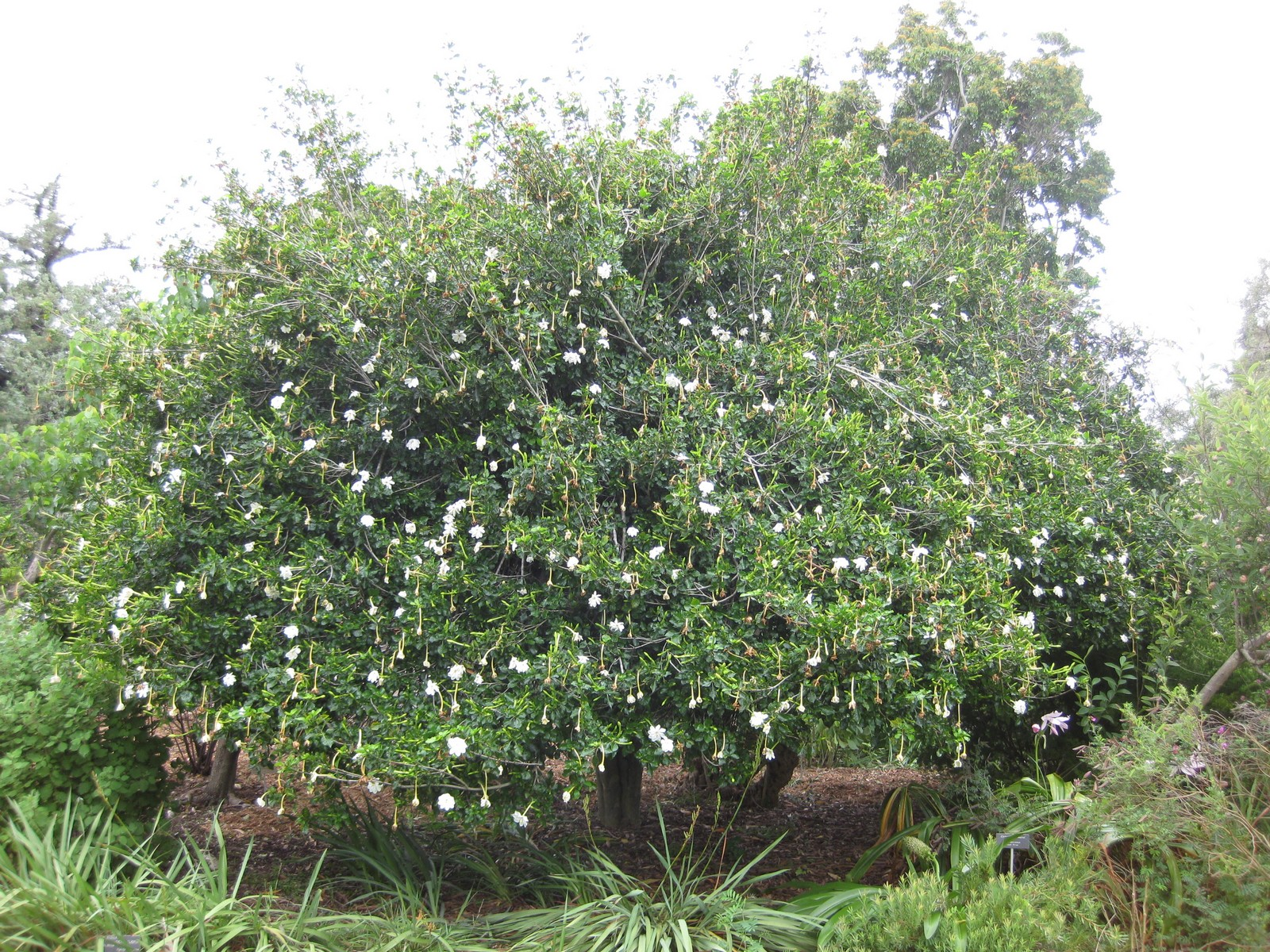 Photographed at the Royal Botanic Gardens Sydney (Australia) in January